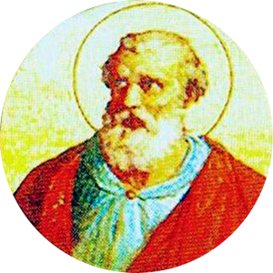 Portrait of Pope Saint Cletus in the Basilica of Saint Paul Outside the Walls, Rome